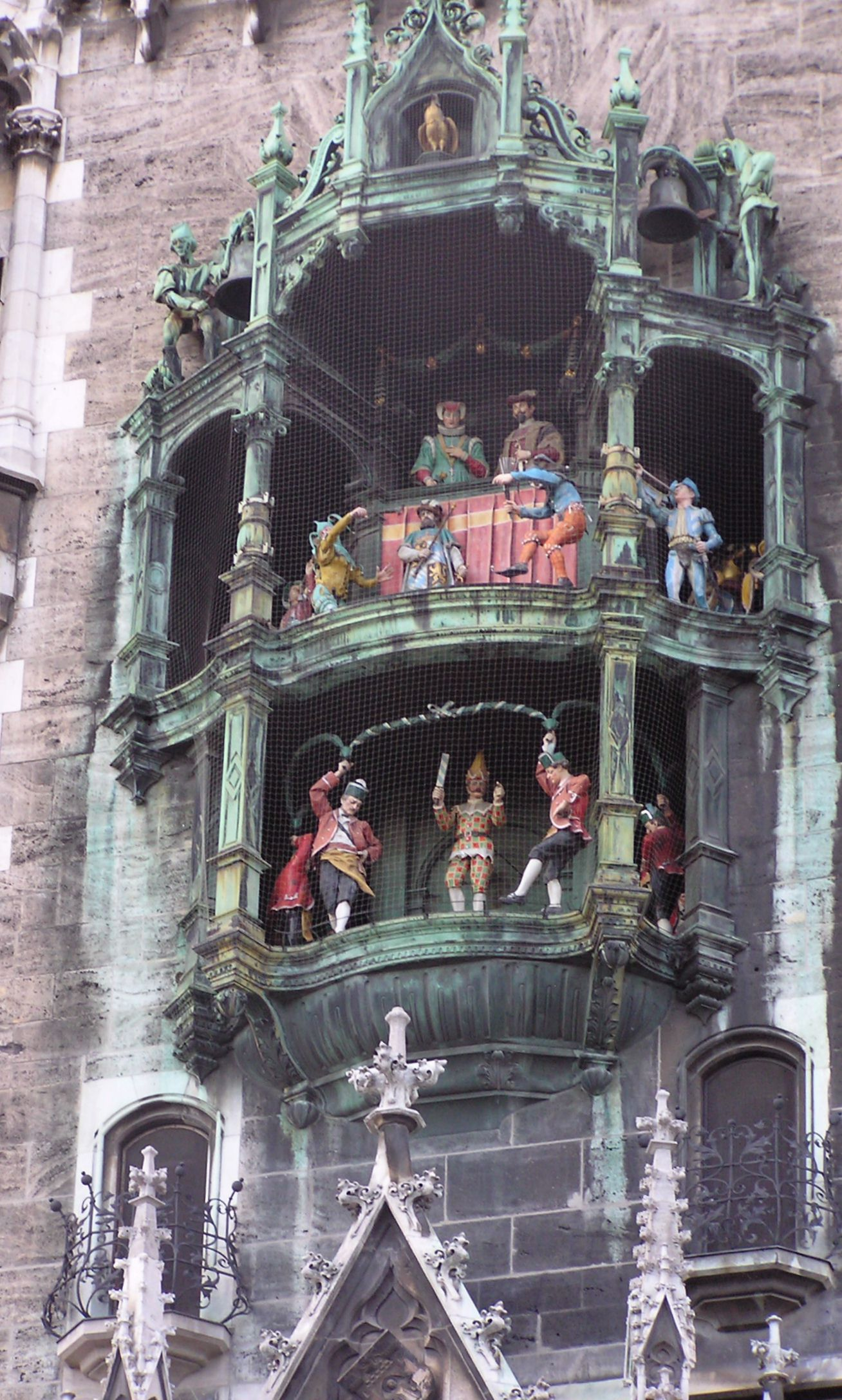 Rathaus-Glockenspiel in Munich, Germany from 1908, consists of 43 bells and 32 life-sized figures and is a famous tourist attraction.